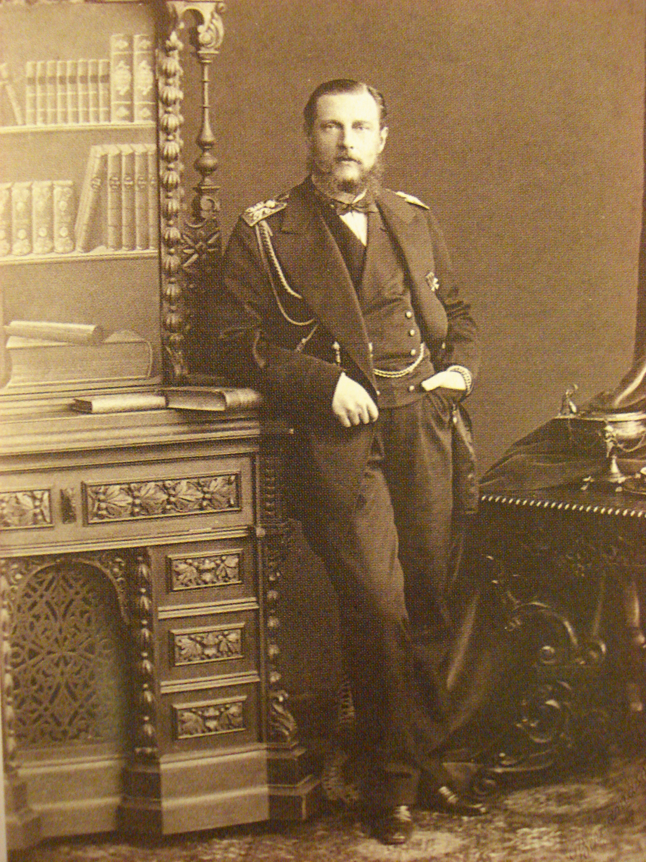 Grand Duke Konstantine Nikolaievich of Russia